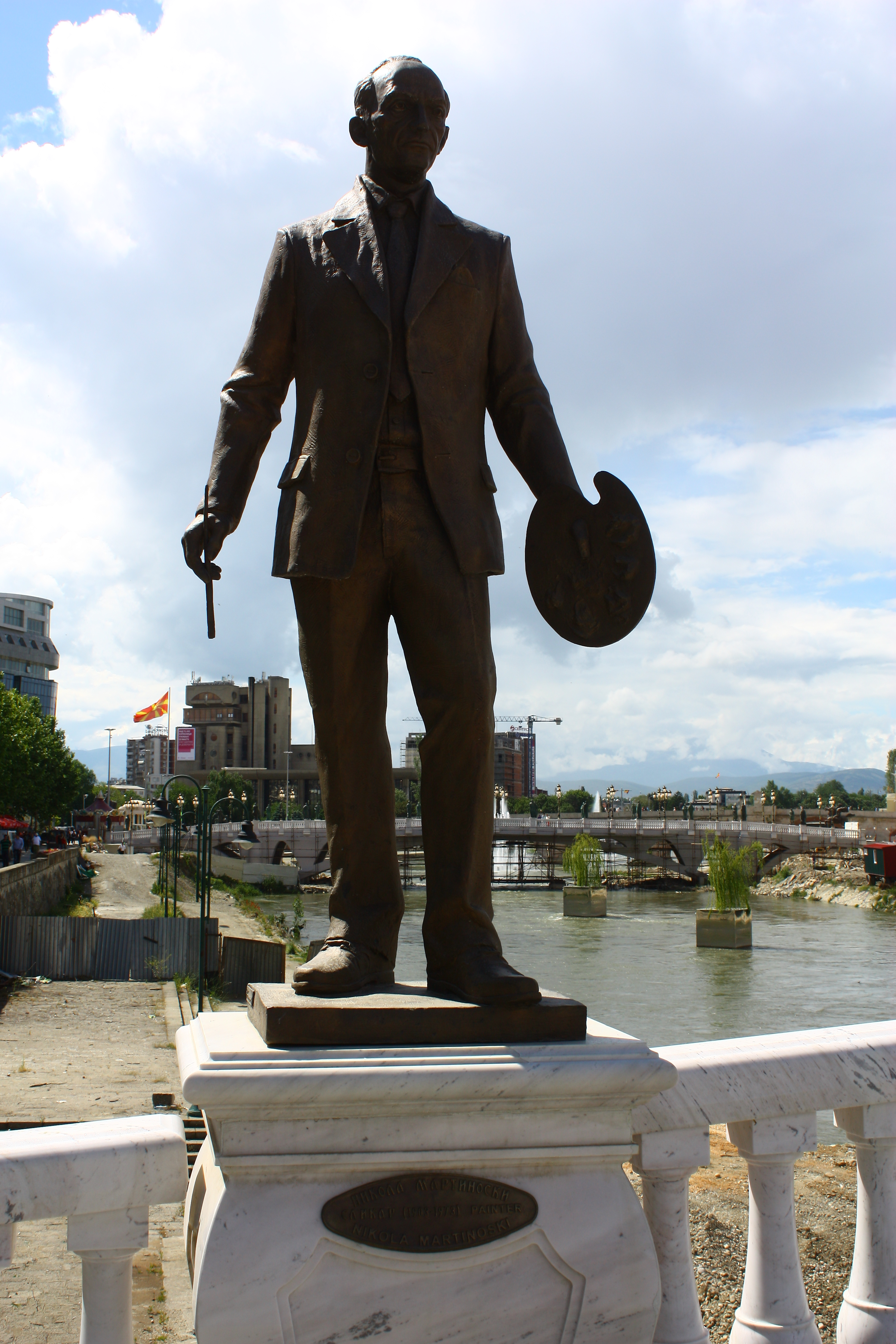 Sculpture od the Bridge of Arts in Skopje, Macedonia This image is uploaded as part of the picture contest Wiki Loves Cultural Heritage in Macedonia 2013. English | македонски | +/−